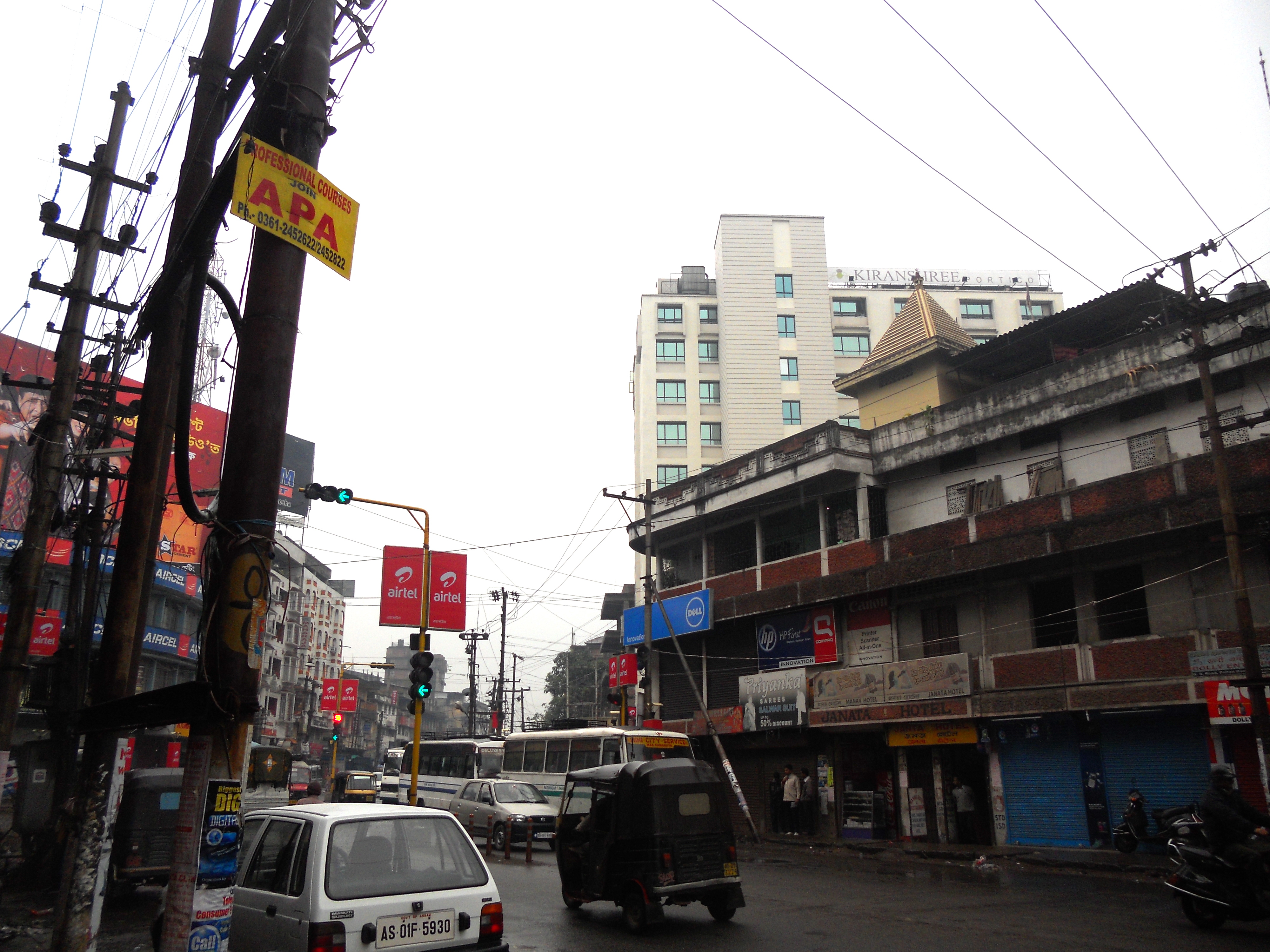 Paltan Bazaar